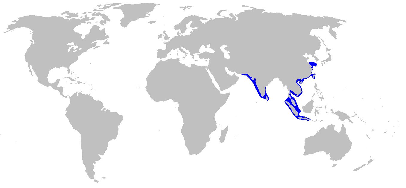 Distribution map for Chiloscyllium indicum